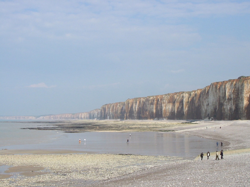 Cliffs in Saint Valéry-en-Caux (Normandie, France)